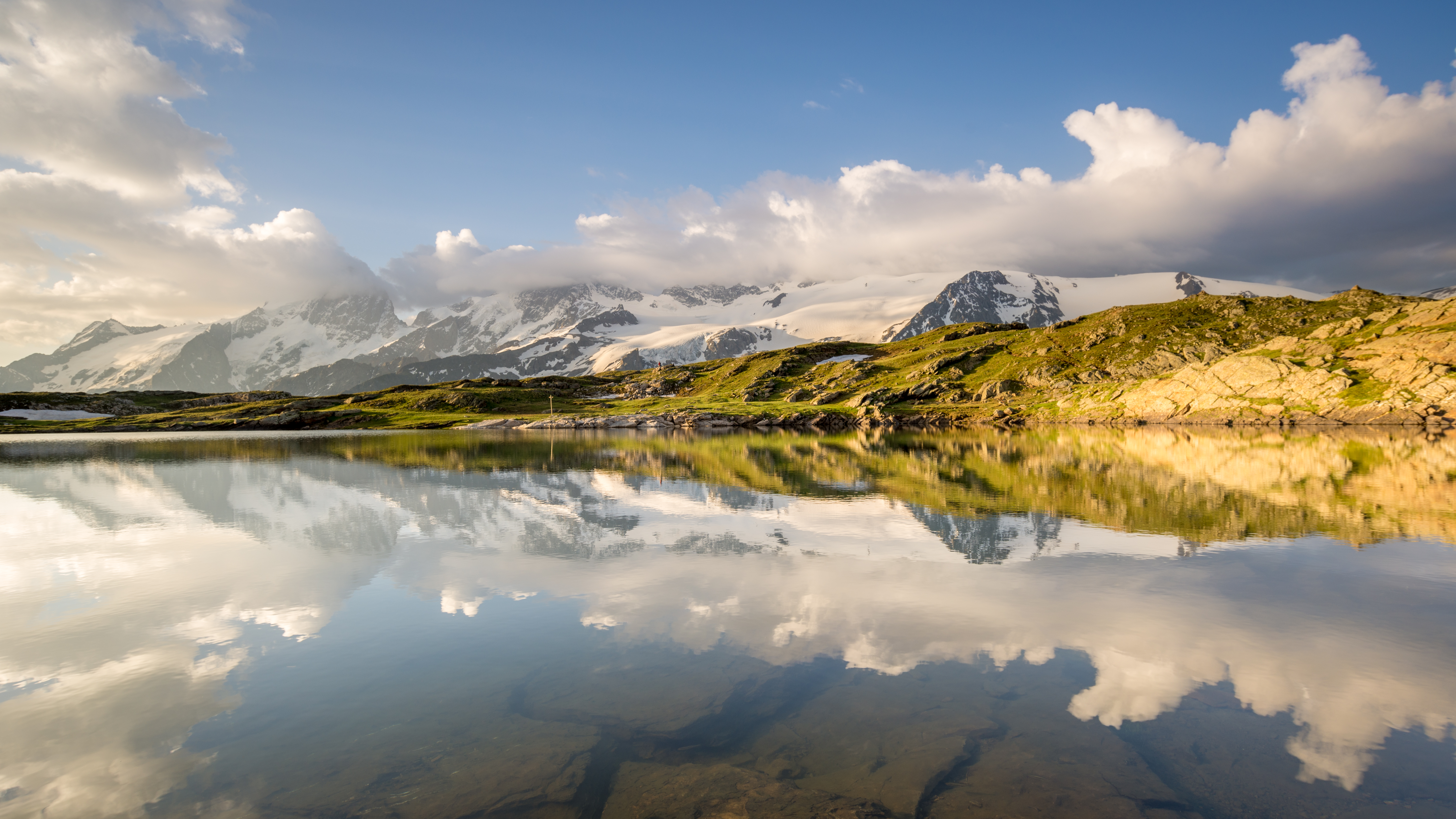 Lac Noir on the Plateau d'Emparis (Parc national des Écrins)